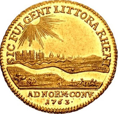 GERMANY, Pfalz (Kurfürstentum und Pfalzgrafschaft). Karl IV Theodor. 1742-1799. AV Dukat (21.5mm, 3.49 g, 12h). Mannheim mint. Dated 1763 AS. CAR • THEODOR • D : G • PR • S • R • I • A • T & EL •, draped and cuirassed bust right; A • S below / SIC FULGENT LITTORA RHENI, cityscape of Mannheim viewed from the Rhine river, with radiant sun to upper left; in exergue, AD NORM • CONV/ 1763 •. Haas 62; KM 113; Friedberg 2037. UNC, lustrous.